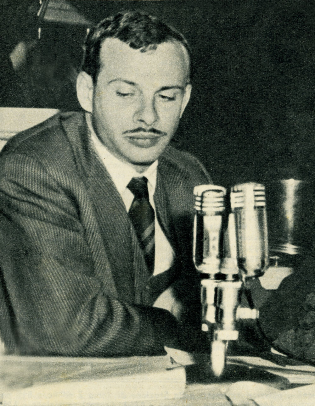 photo from the magazine Radiocorriere (1955)